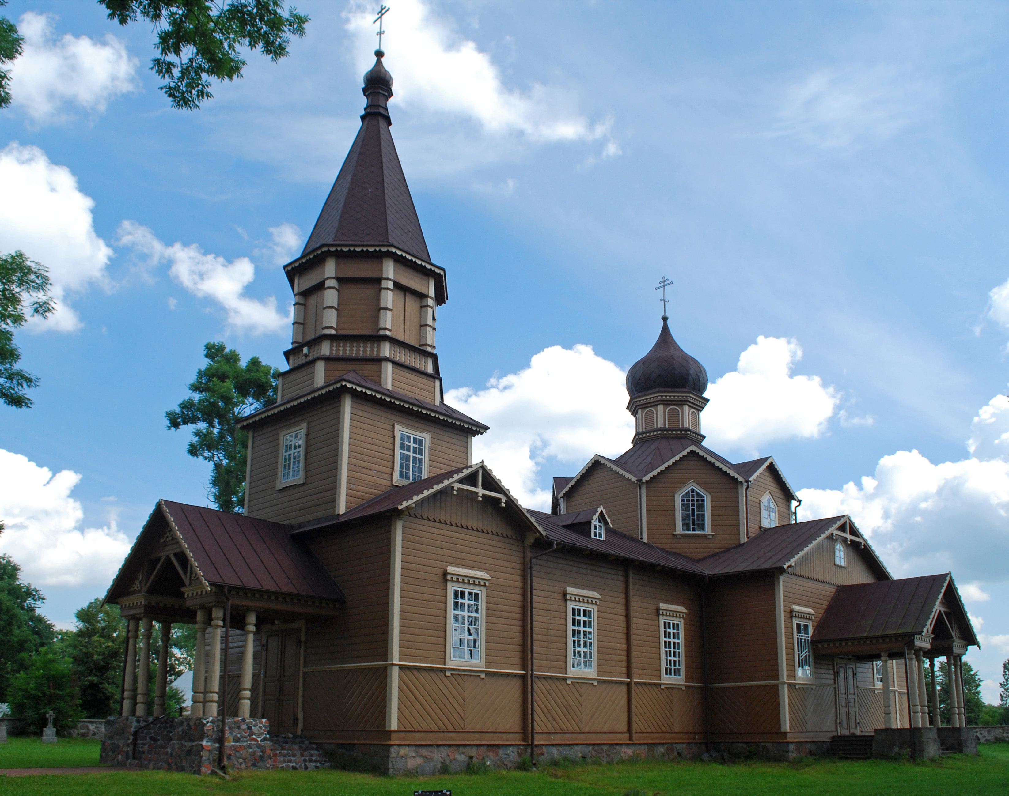 This photo from Podlaskie Voievodeship was taken during Polish Wikiexpedition 2009 set up by Wikimedia Polska Association. The making of this document was supported by Wikimedia Polska. Cerkiew w Nowej Woli. {